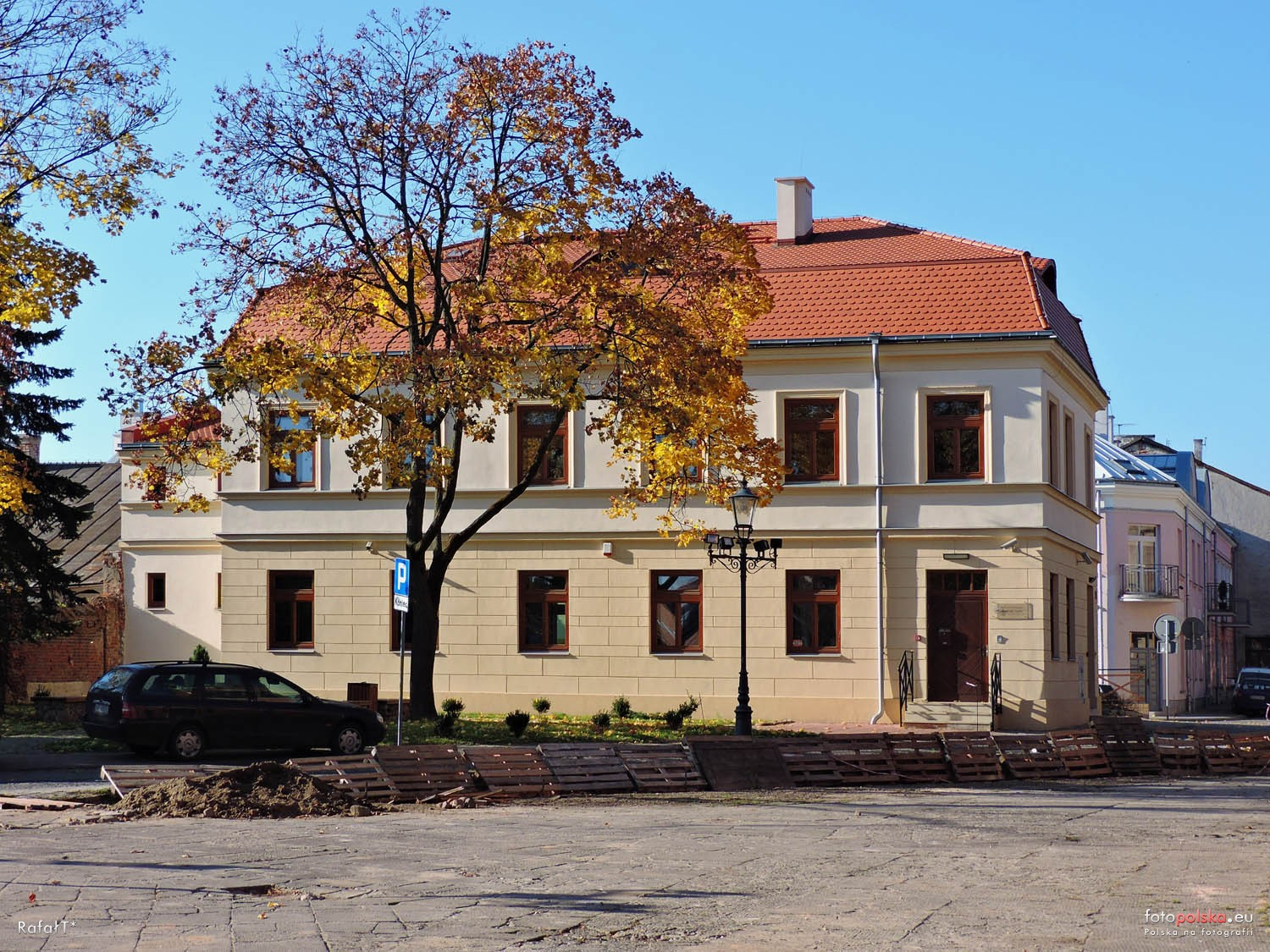 Starościński House, Radom, Poland